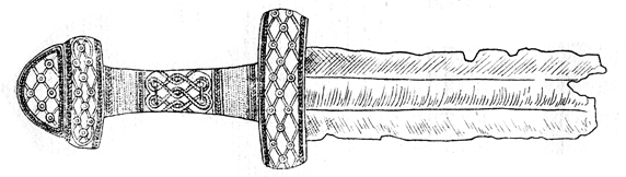 Drawing of a Bronze Age tool